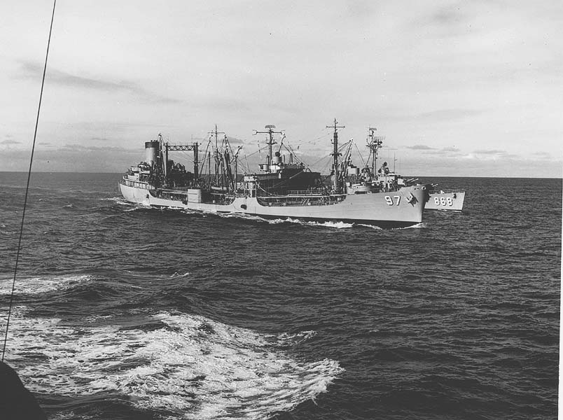 The U.S. Navy Cimarron-class fleet oiler USS Allagash (AO-97) refueling the destroyer USS Brownson (DD-868) in 1962.